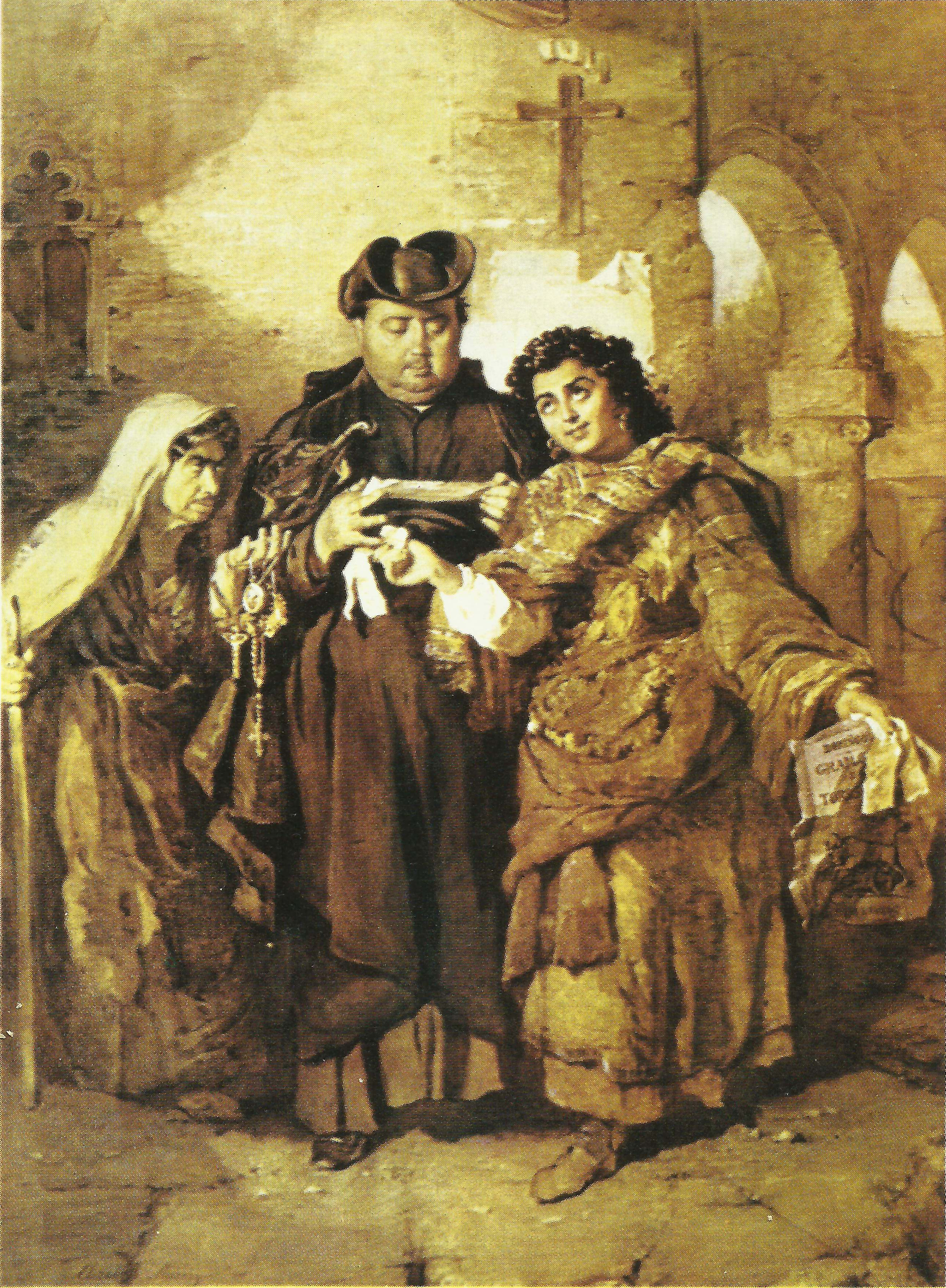 Watercolour of Elizabeth Murray. It is in V&A Museum of Childhood Bethnal Green (London).